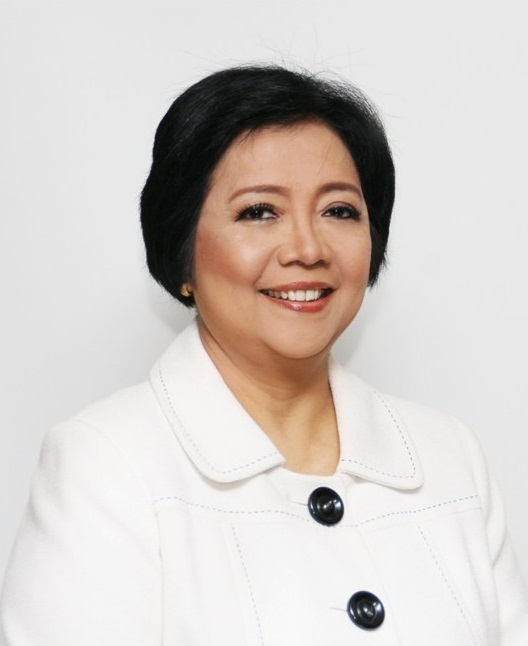 Portrait of Siti Nurbaya Bakar